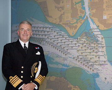 The Trafalgar 200 celebrations were perhaps most remembered by the Review of the International Fleet by Her Majesty Queen Elizabeth. Planning this event was an enormous task, much enabled through the use of space age technology. An example of this technology was the contribution of HMS Westminster which is fitted with the world's leading charting system. Admiral Sir Alan West, then First Sea Lord, is pictured here with the official chart of anchorages for the International Fleet Review. Picture is from DP Kilfeather's book Trafalgar 200 Through the Lens Queen Elizabeth II 80th Birthday Edition. ISBN 0955300401.